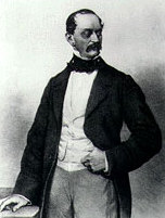 19th century picture of Anton Dreher (1849–1921)